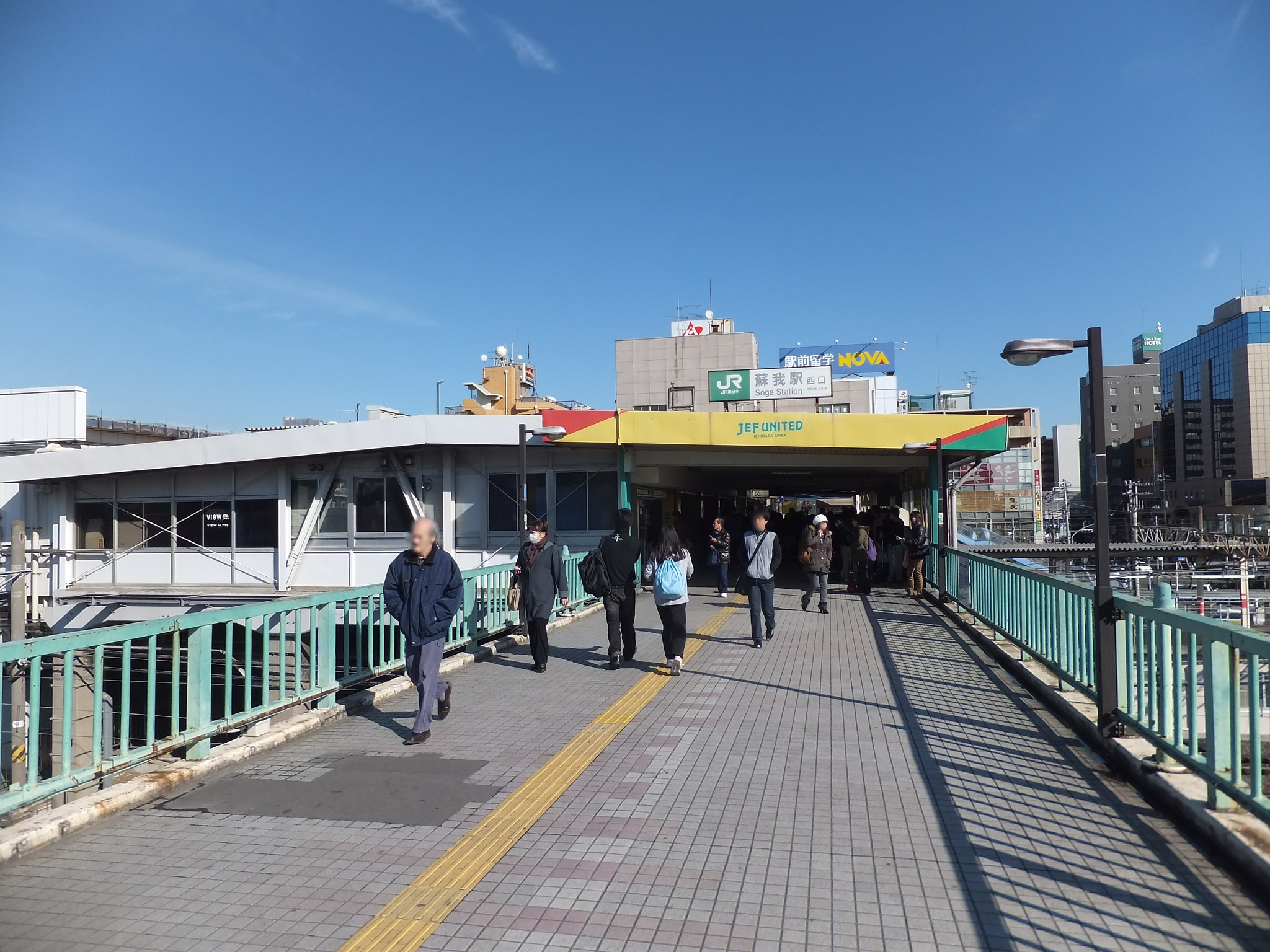 West exit of Soga Station on the Keiyo Line